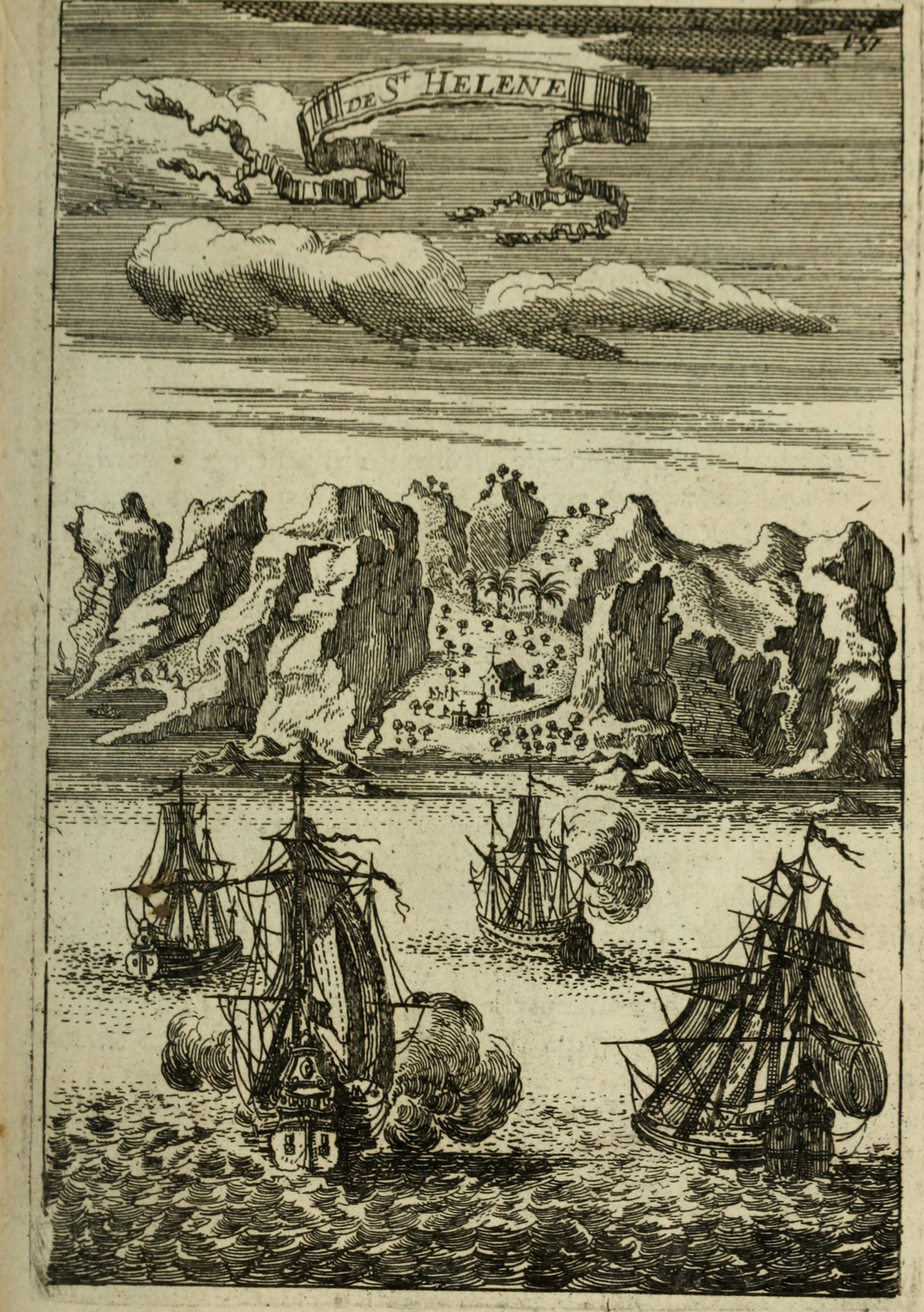 Title: Description de l'univers Year: 1683 (1680s) Authors: Mallet, Allain Manesson, 1630?-1706? Subjects: Geography Géographie Publisher: Paris, D. Thierry Text Appearing Before Image: D E LAFRIQUE.FIGURE LUI. •37 Text Appearing After Image: 138 DE LAFRIQUE. gais laiiïbîent dans rifle en prenant ce quils avoient de vivres ; cequi futcaufe quon y envoya des Troupes qui enlevèrent ces afTaiTins,-& les menèrent à Lifbonne. Les Anglois font maintenant lès Maiftres de cette Ifle. Us y on*Mty un Fort à trois Battions qui cft défendu par une petite gar-nifon & par de bonnes pièces dartillerie. Ils y ont des habitations oùils nourrilfent des Boeufsa des Moutons,dés Cabris, des Cochons,& des Volailles. Ils y ont planté plufieurs Arbres fruitiers qui vien-nent fort bien , & dont les fruits font dun grand fecours pour lesmalades qui font attaqués du Scorbut. Le Scorbuteft un mal qui prend fouvent en Mer, principalementdans les voyages de long cours : on lappelle mal de Terre, à caufè.que la Terre eft le feul remède pour le guérir quand il neft pas beau-coup invétéré. Il sengendre par les alimens que Ton prend en Mer : il paroiftdabord par des excroifTances de chair qui viennent aux gencives, 8cqui